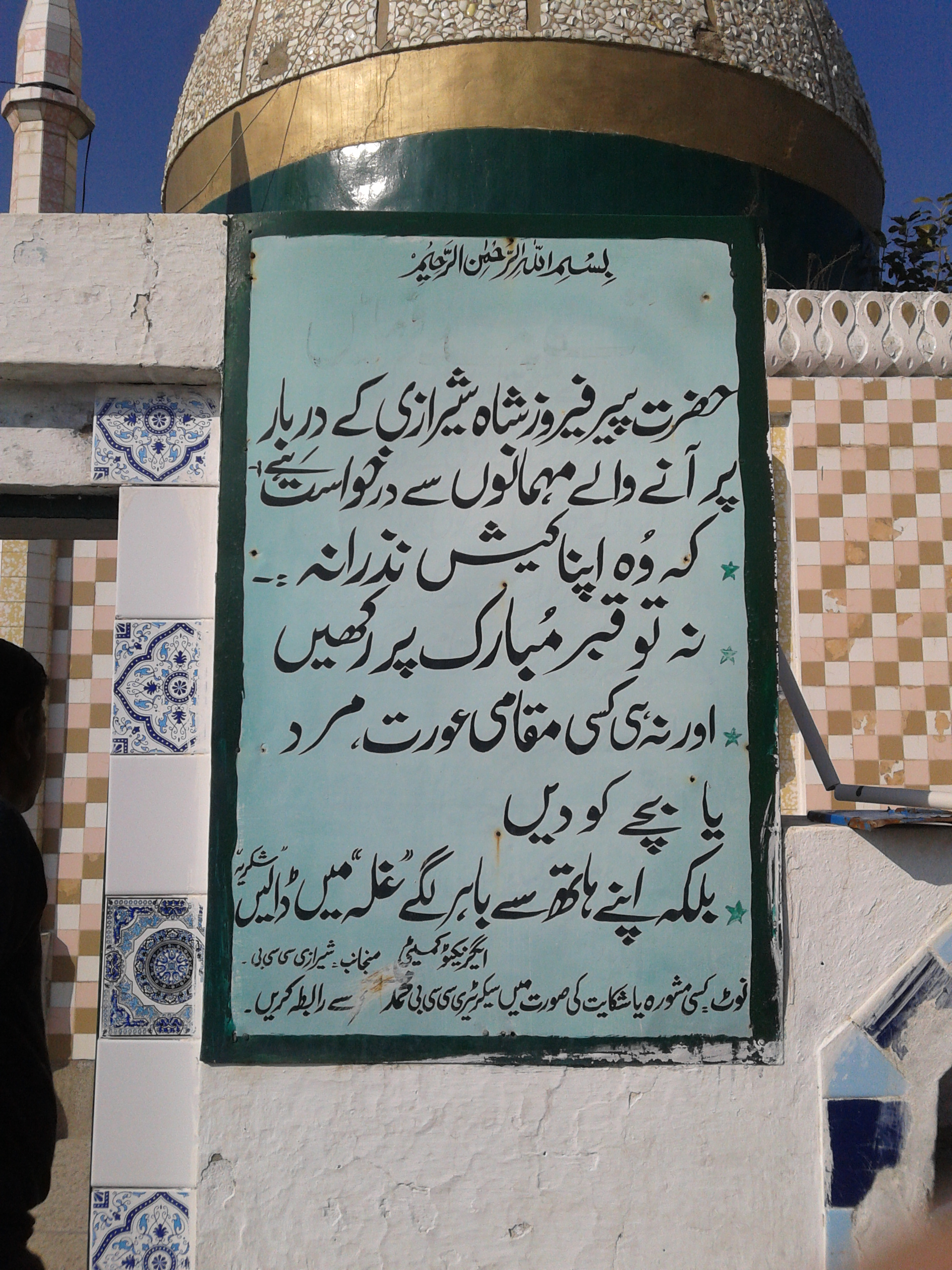 shah sehrazi